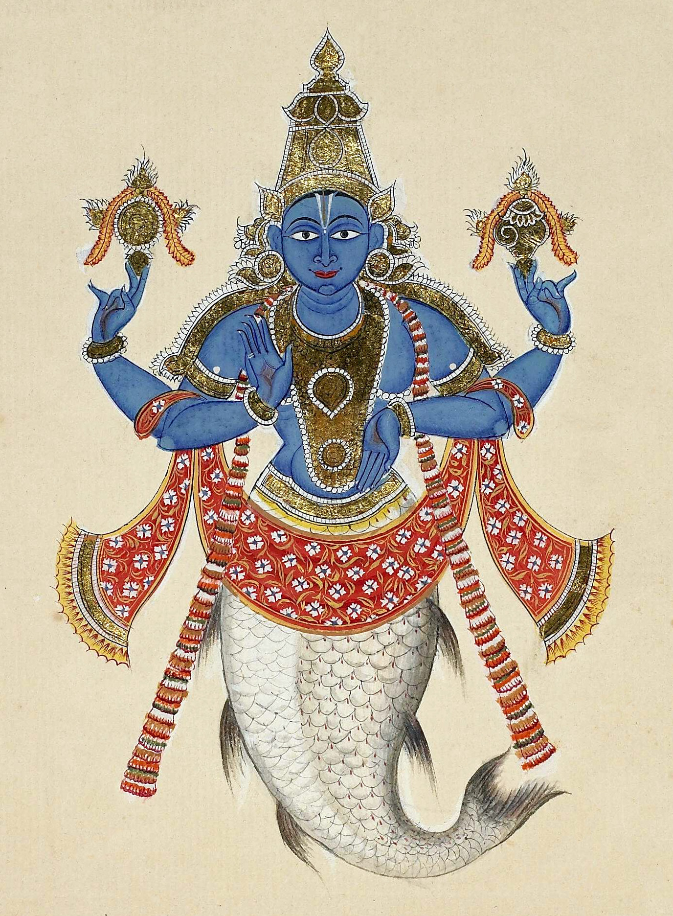 "Painting of Matsya, the fish-incarnation of Viṣṇu. The upper body of Viṣṇu emerges from the body of the fish. A silk sash is draped over his elbows and has an intricate design. On laid and water-marked European paper, dated 1816."